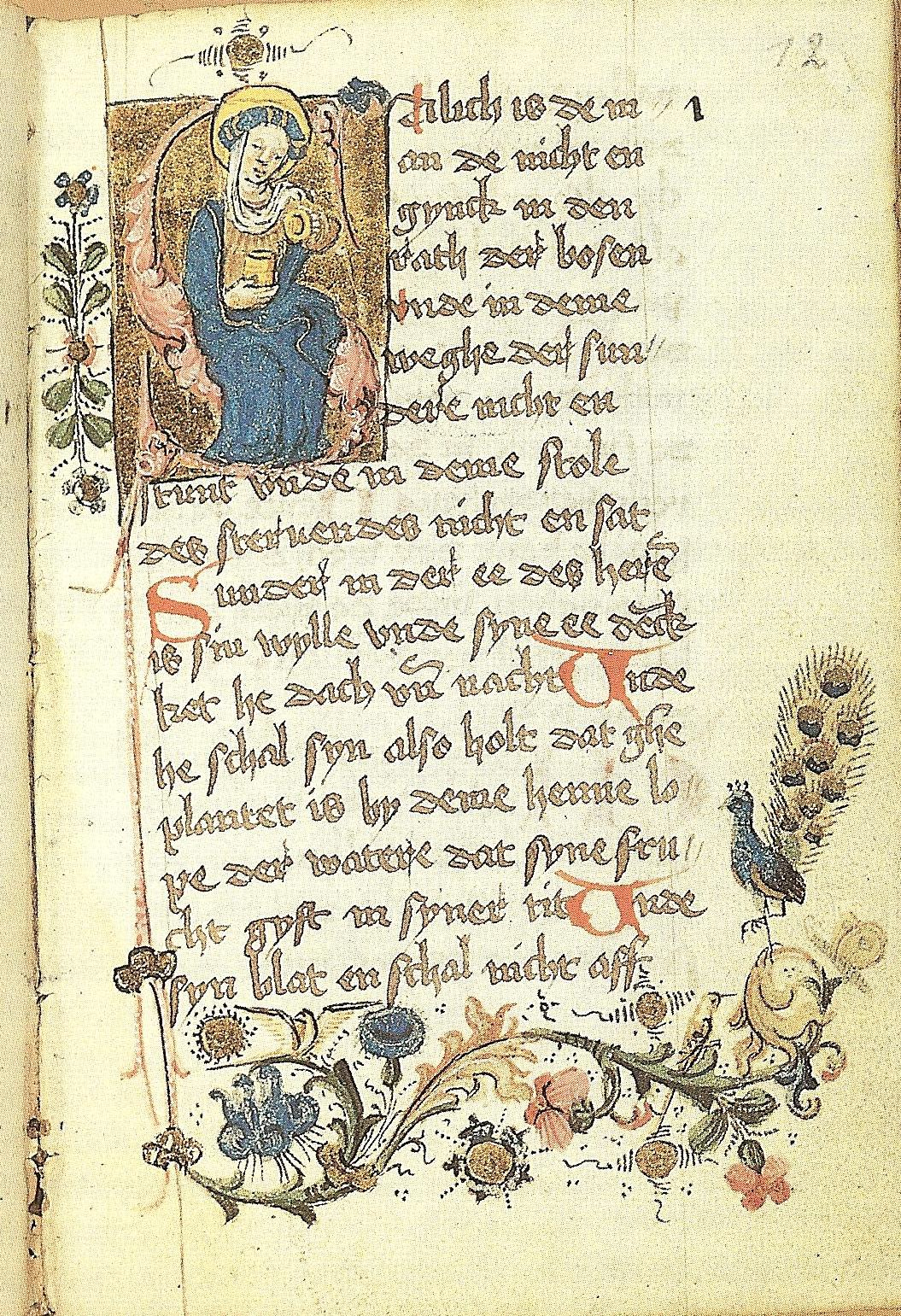 Leaf from a 15th century Middle Low German manuscript from the Michaeliskonvent in Lübeck, showing Psalm I; now part of the collections of the Stadtbibliothek Lübeck as Ms. theol. germ. 8° 33